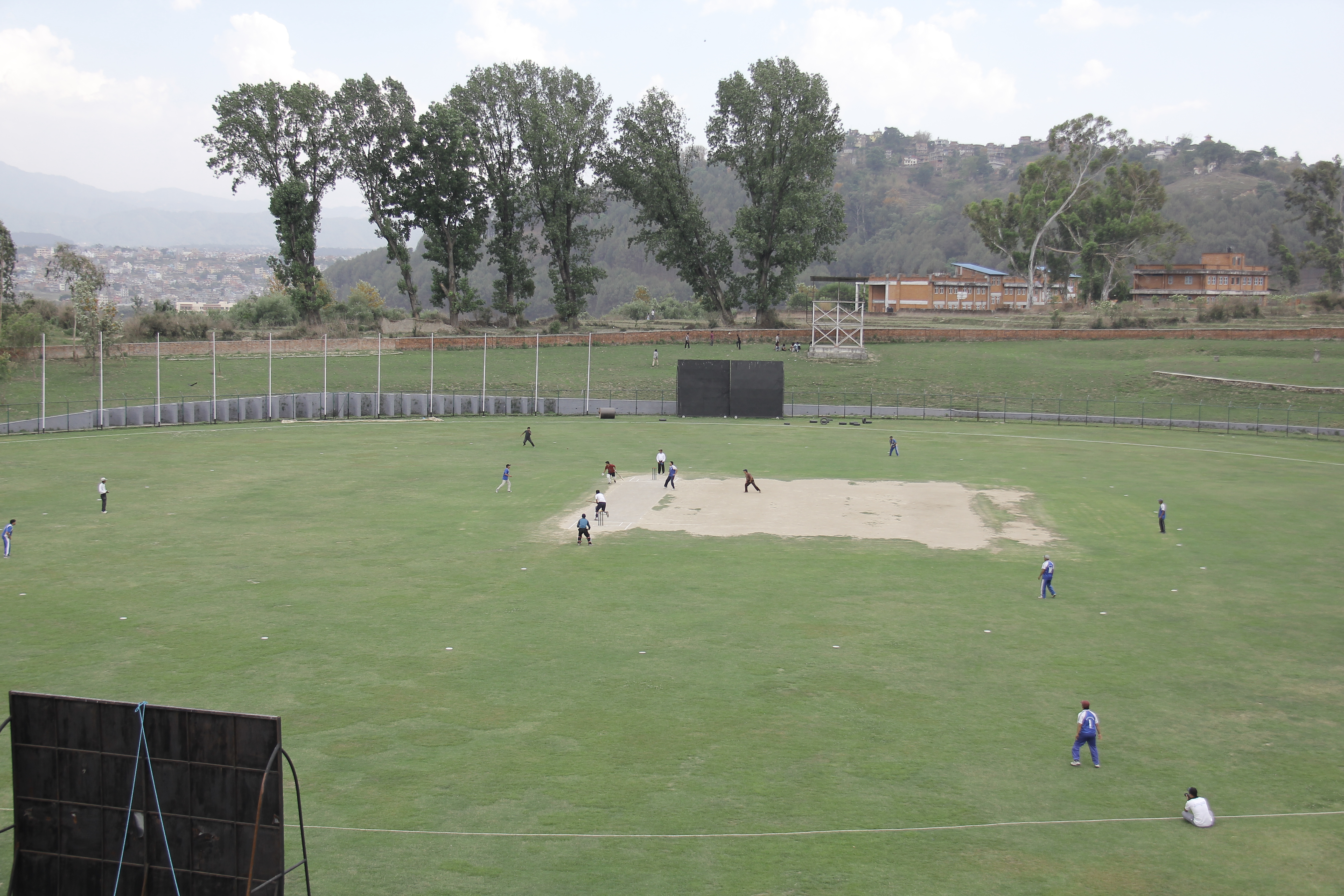 Kirtipur Cricket Ground, Kathmandu